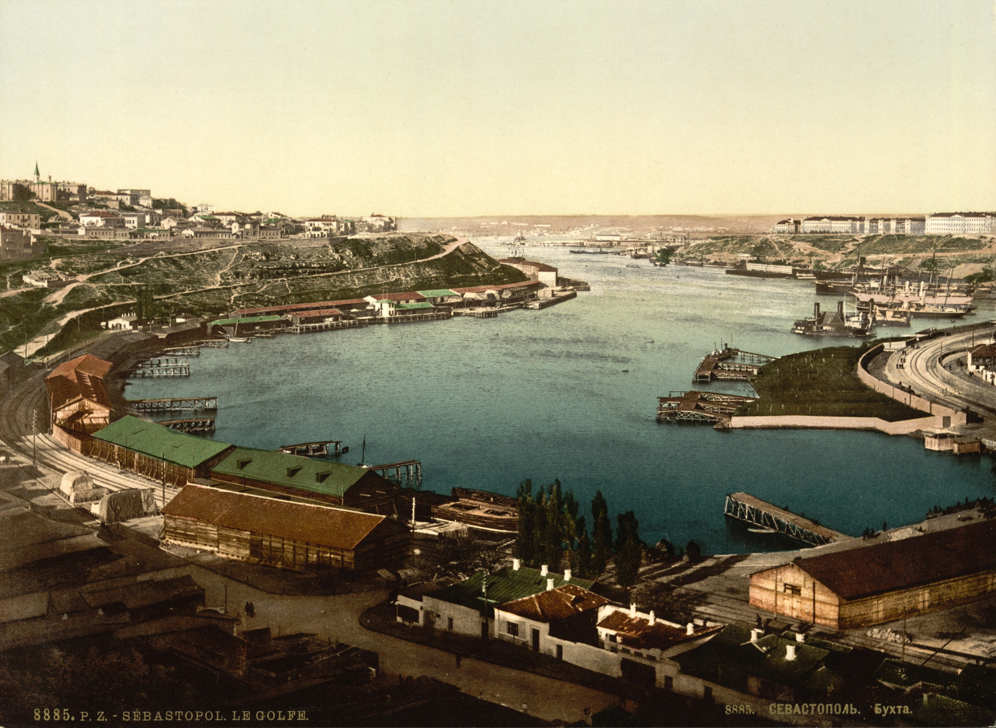 Color View of part of the port of Sevastopol in 1905. Crimea, Black Sea. Башҡортса: Цветам части порта Севастополь в 1905 году. Крым, Черное море.